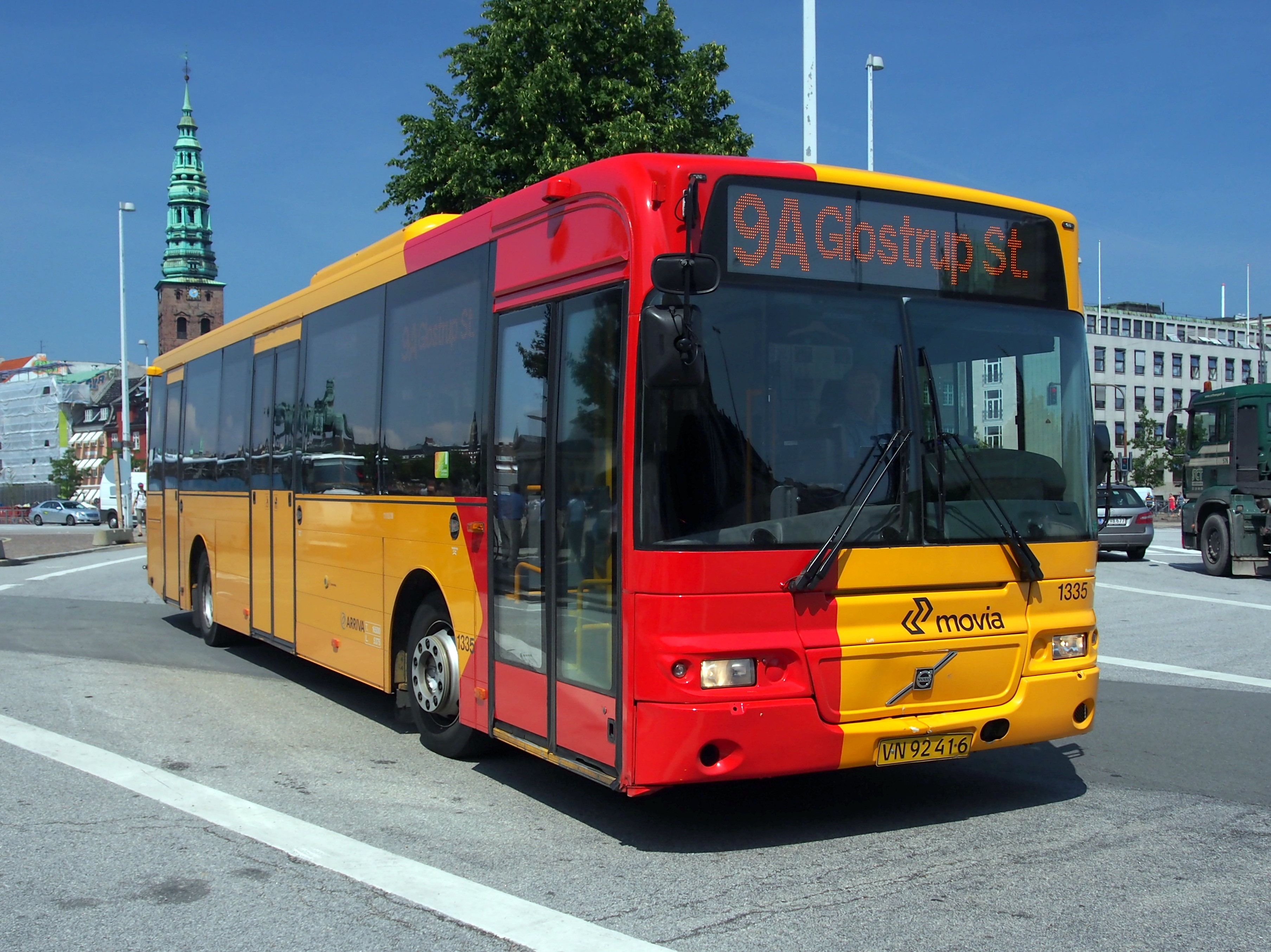 Photographed at the Copenhagen, Denmark.